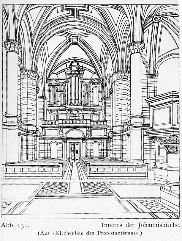 Johanneskirche in Düsseldorf 1881 Architekten Walter Kyllmann und Adolf Heyden Innen.jpg